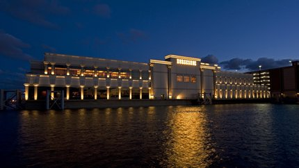 Exterior image of Horseshoe Casino. Copyright Caesars Entertainment, which I represent and am authorized to use.